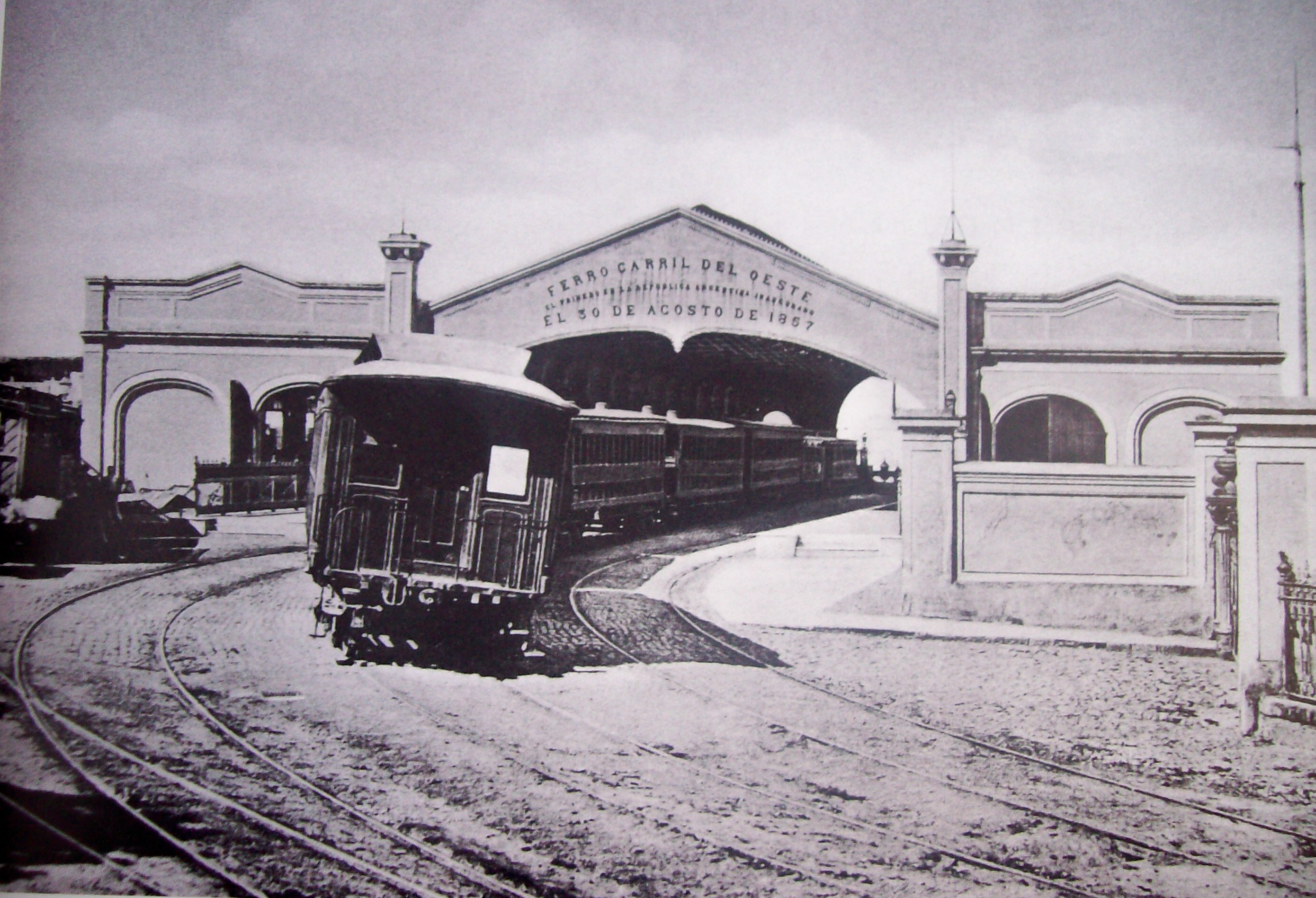 Del Parque station of Buenos Aires Southern Railway (then "Ferrocarril del Oeste"). It was the first station built by a British company in Argentina.